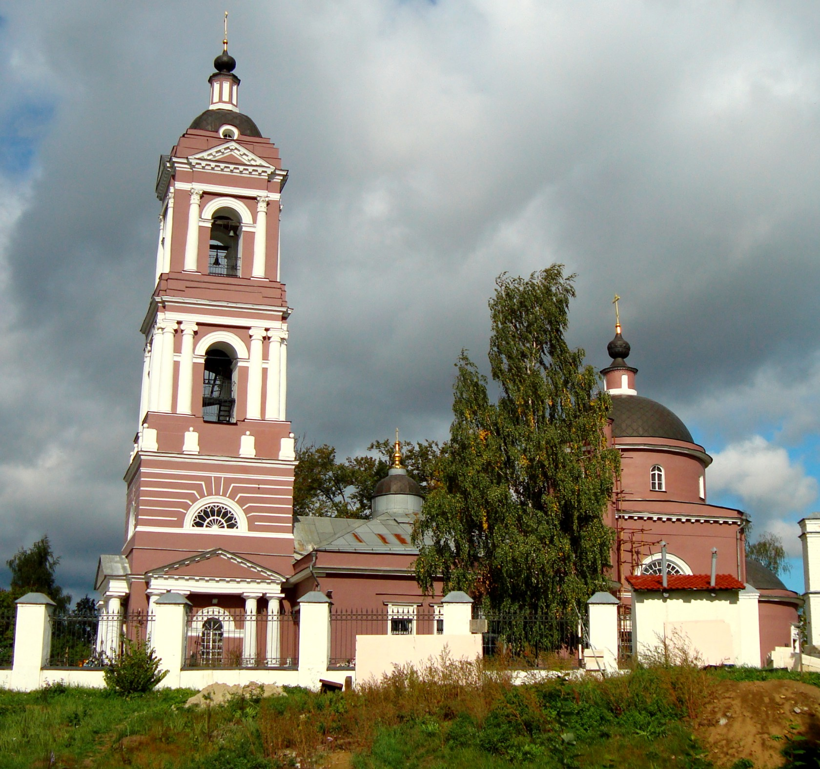 Dormition of the Theotokos in Bogoslovo. Moscow Oblast, Russia